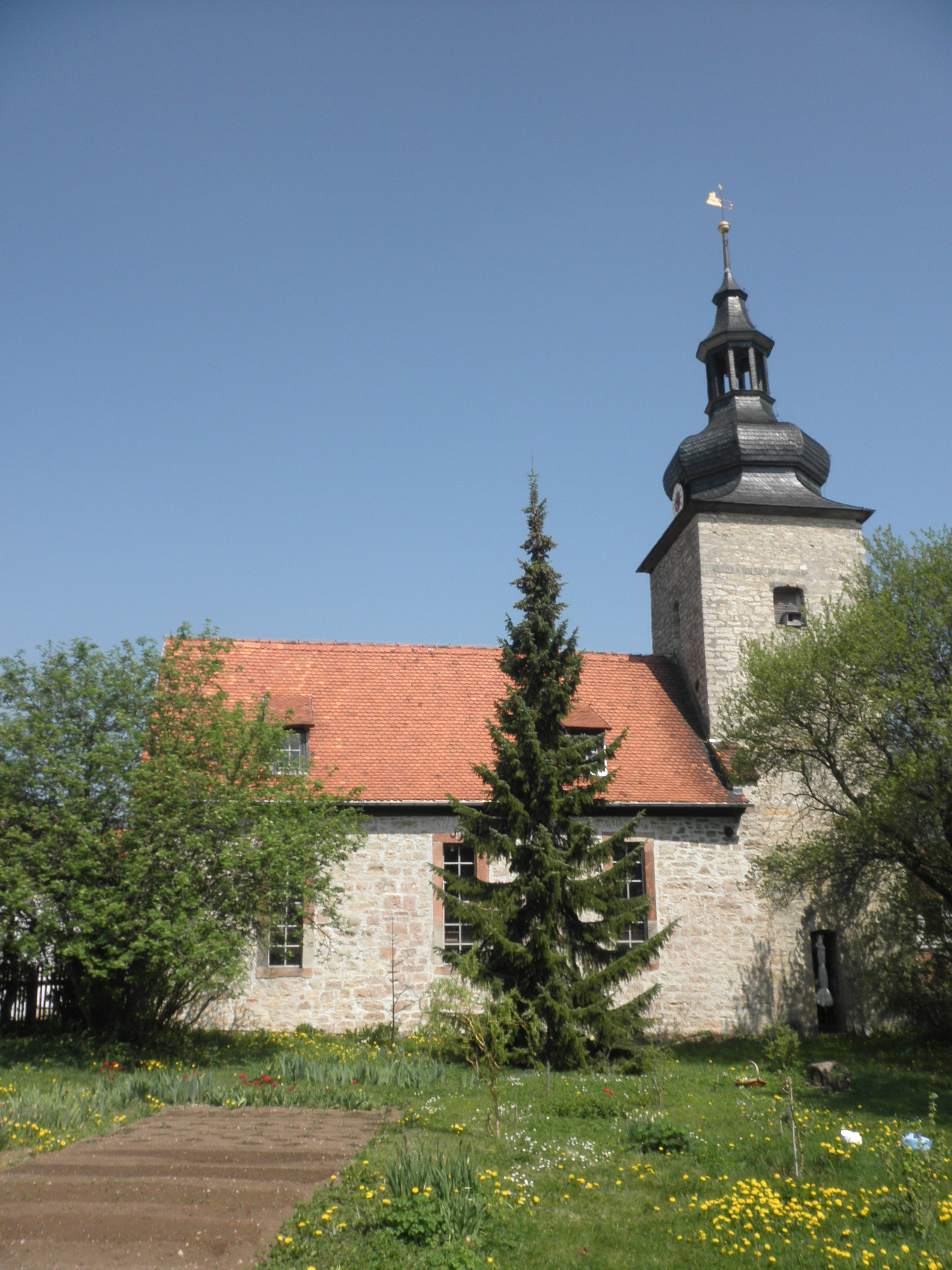 Church in Rittersdorf in Thuringia